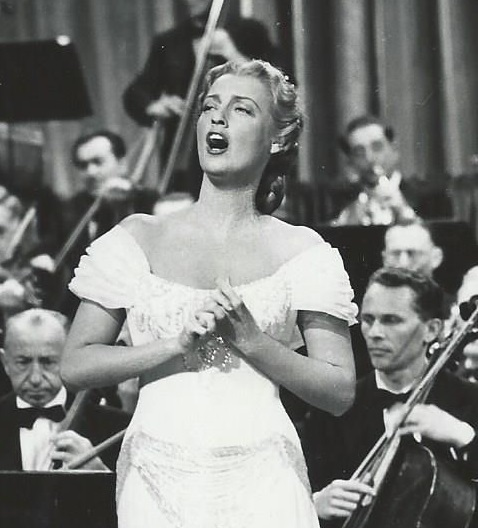 Cropped behind the scenes photo of actress and singer Jeanette MacDonald singing with an orchestra in a still for The Sun Comes Up